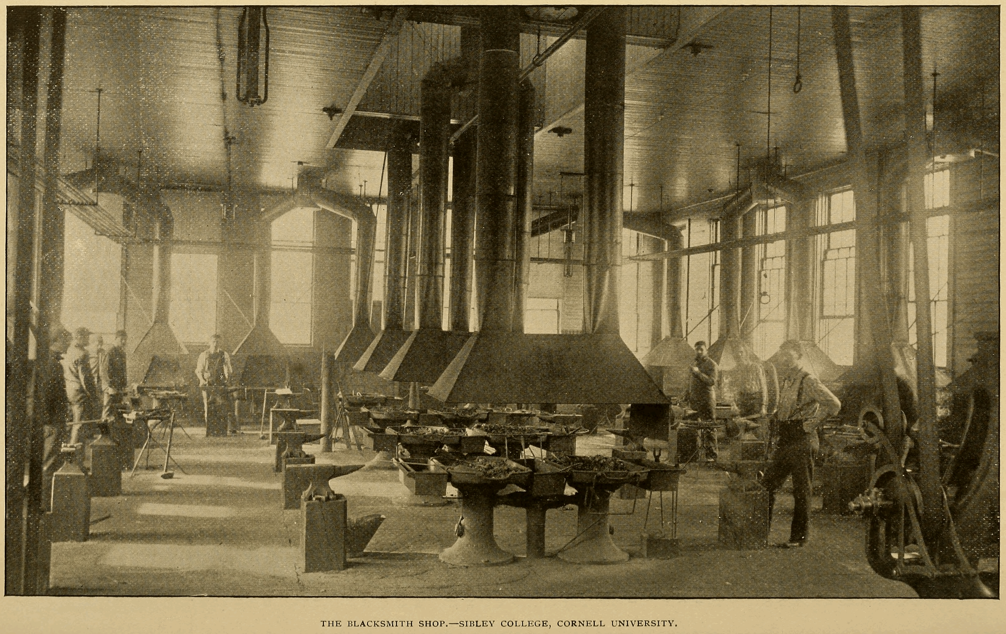 Sibley College of the Cornell University was featured in Cassier's Magazine, December 1891. This photo of the Blacksmith Shop appeared on page 110.